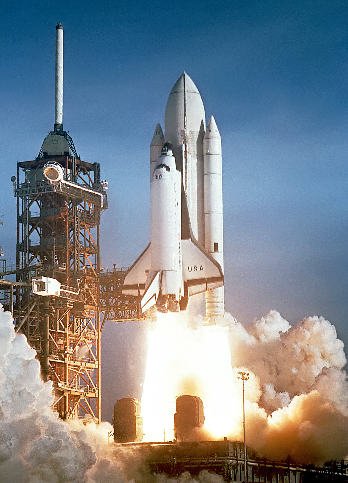 Launch of the Space Shuttle Columbia, STS-1 on April 12, 1981.